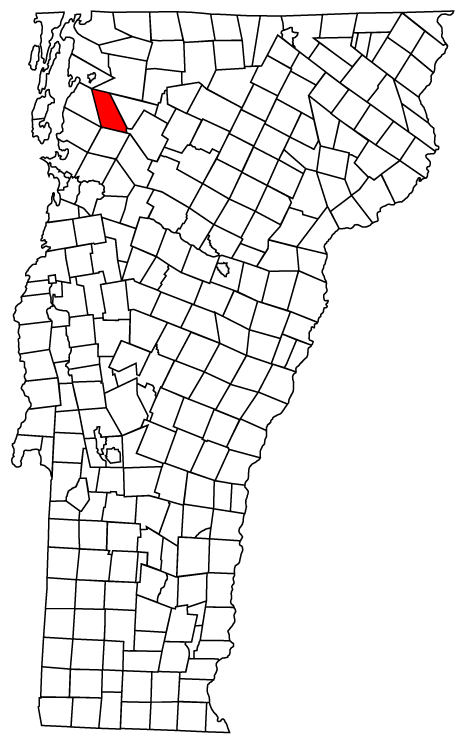 Map of Vermont towns with Fairfax highlighted